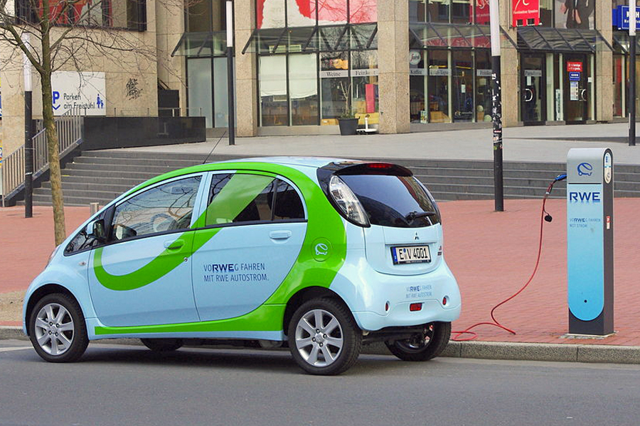 Mitsubishi i-MiEV electric car charging in city centre of Dortmund